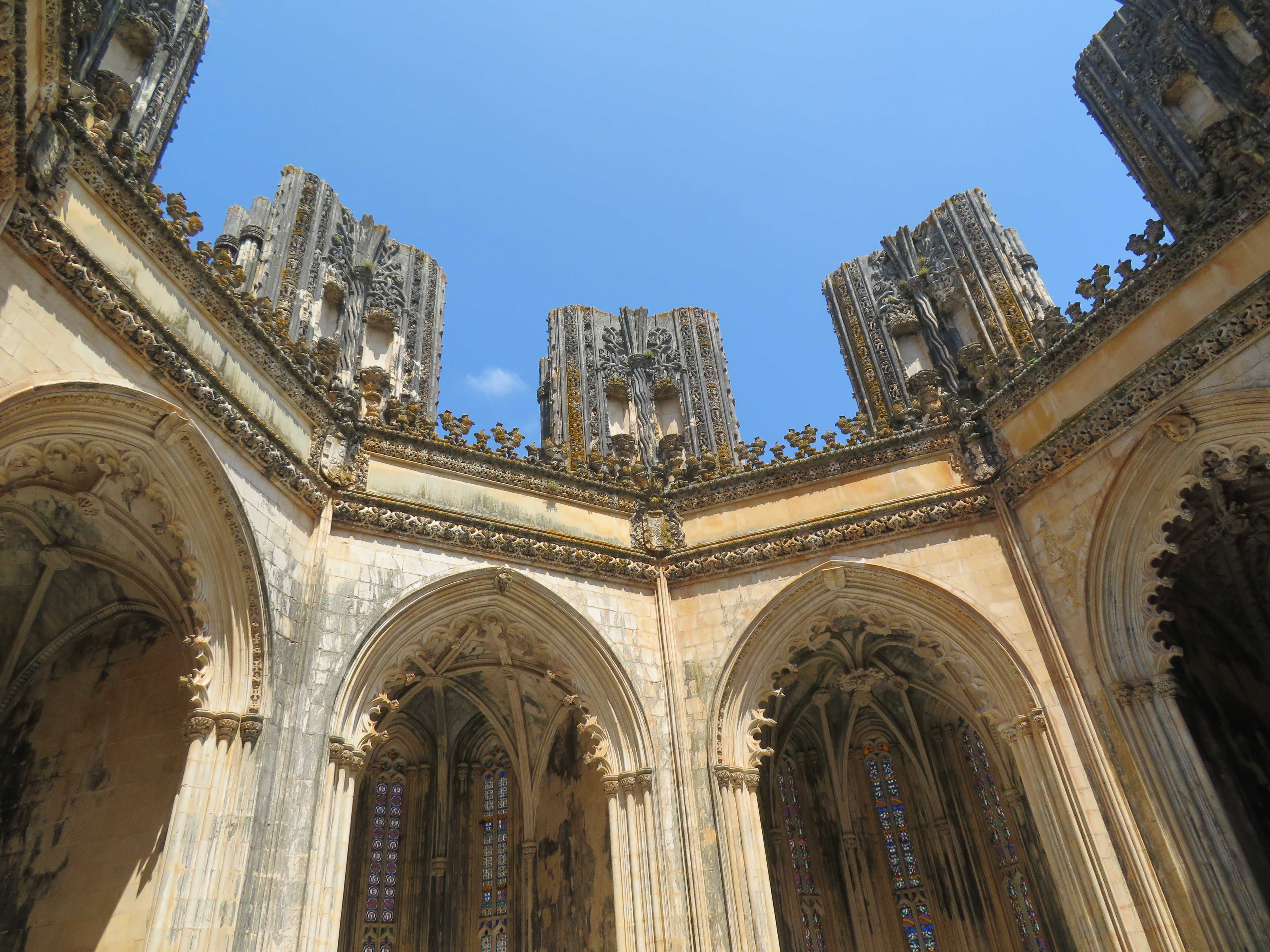 Monastery of Batalha 20